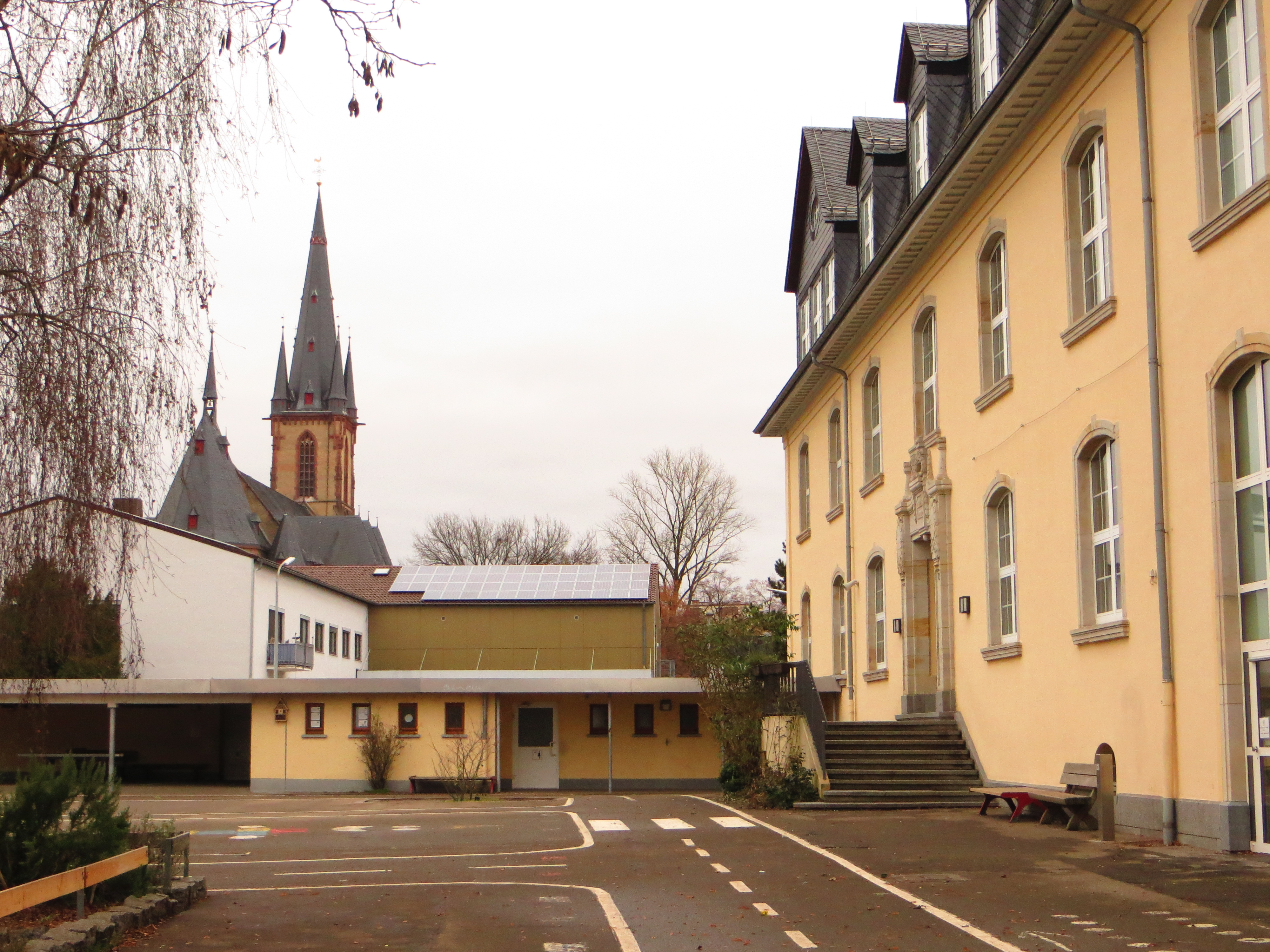 Schiller School Viernheim